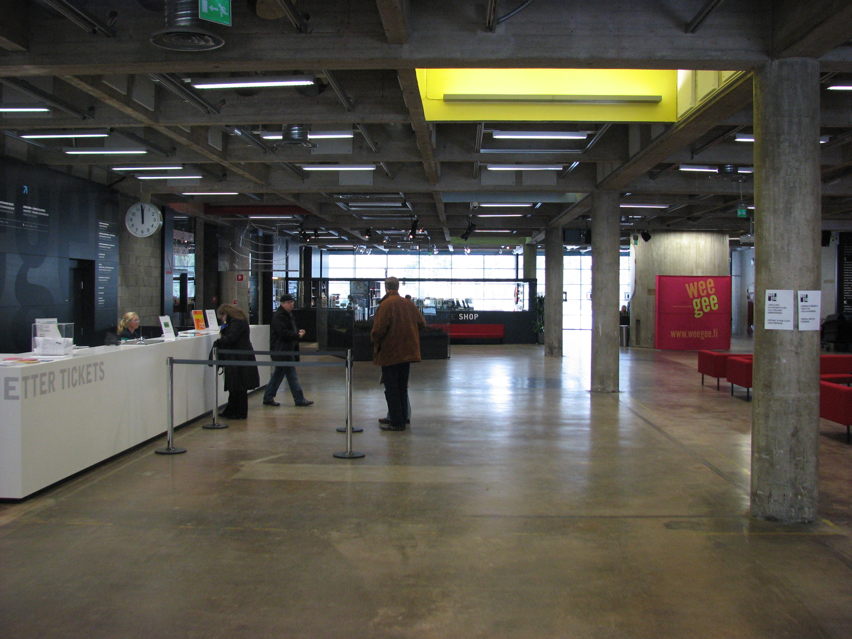 EMMA, the Espoo Museum of Modern Art, seen from the inside.